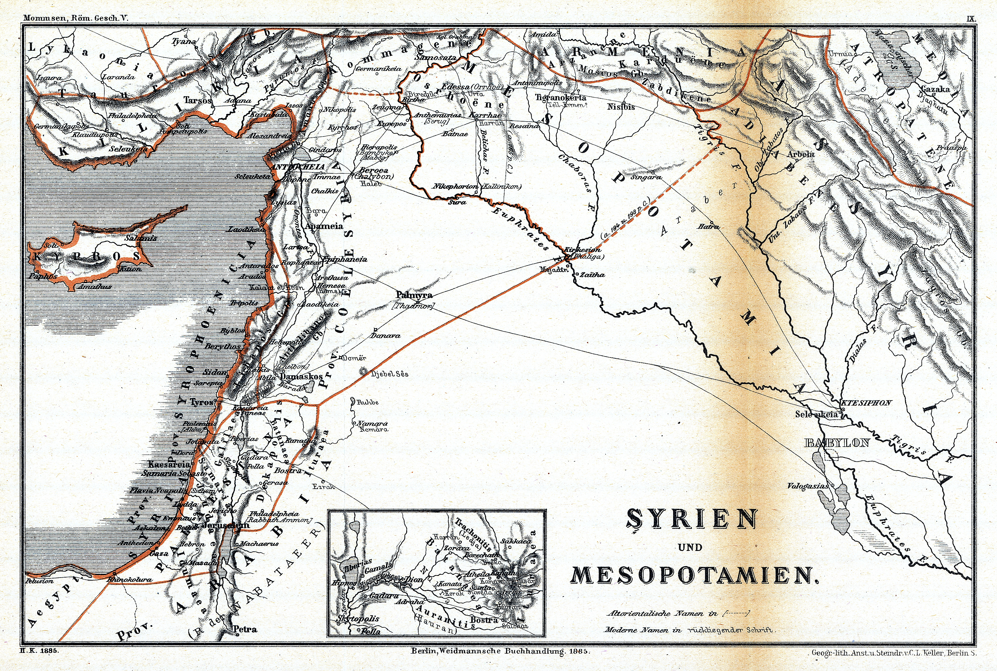 maps of roman provinces, from the book "Römische Provinzen", part V, by Theodor Mommsen